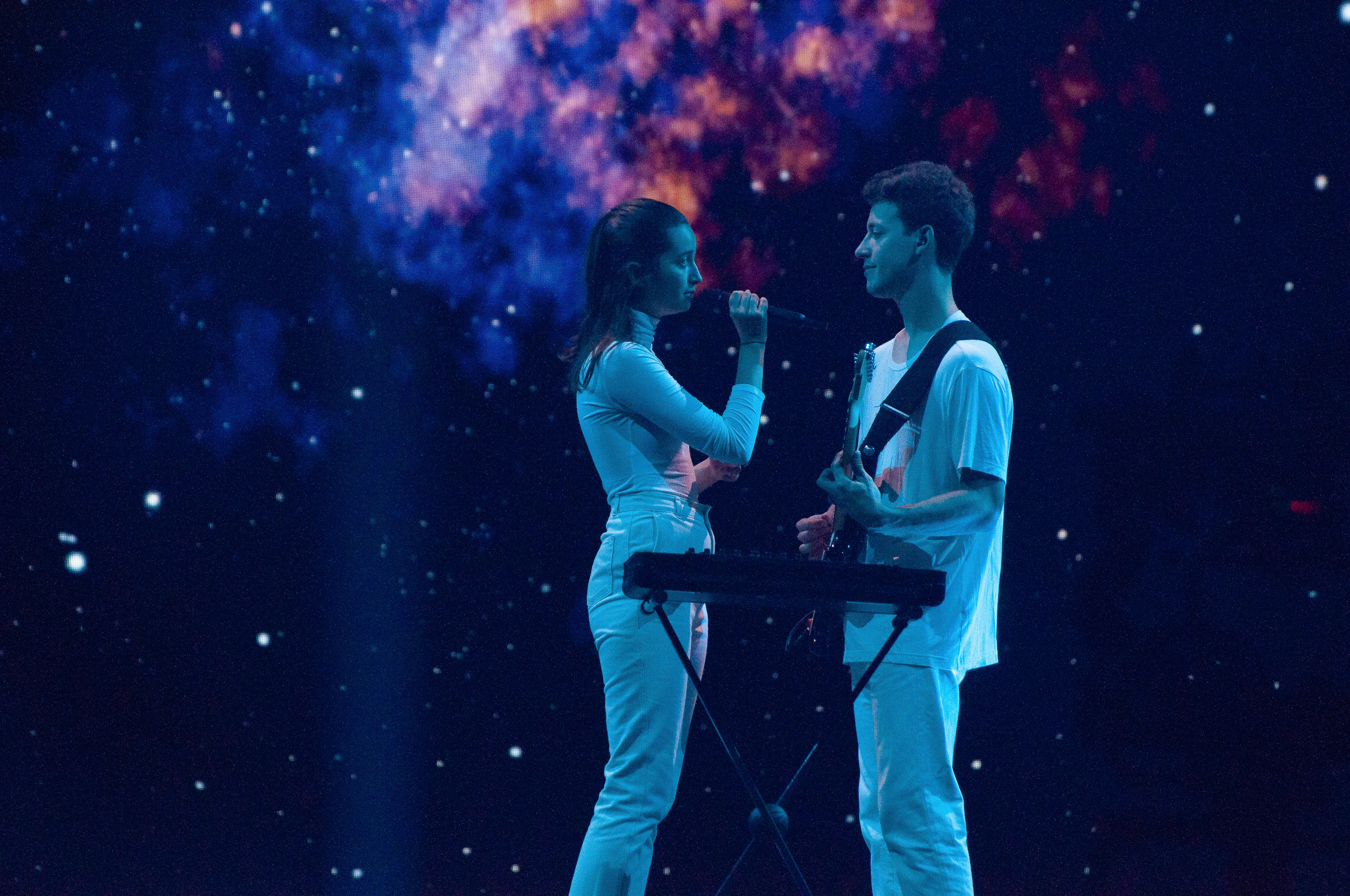 Zala Kralj & Gašper Šantl at the 2019 Eurovision Song Contest Grand Final Dress Rehearsal